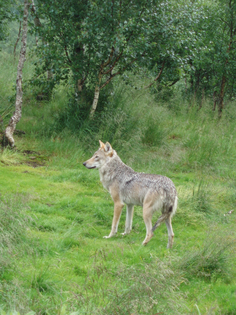 A wolf in Polar Zoo, female, Canis lupus